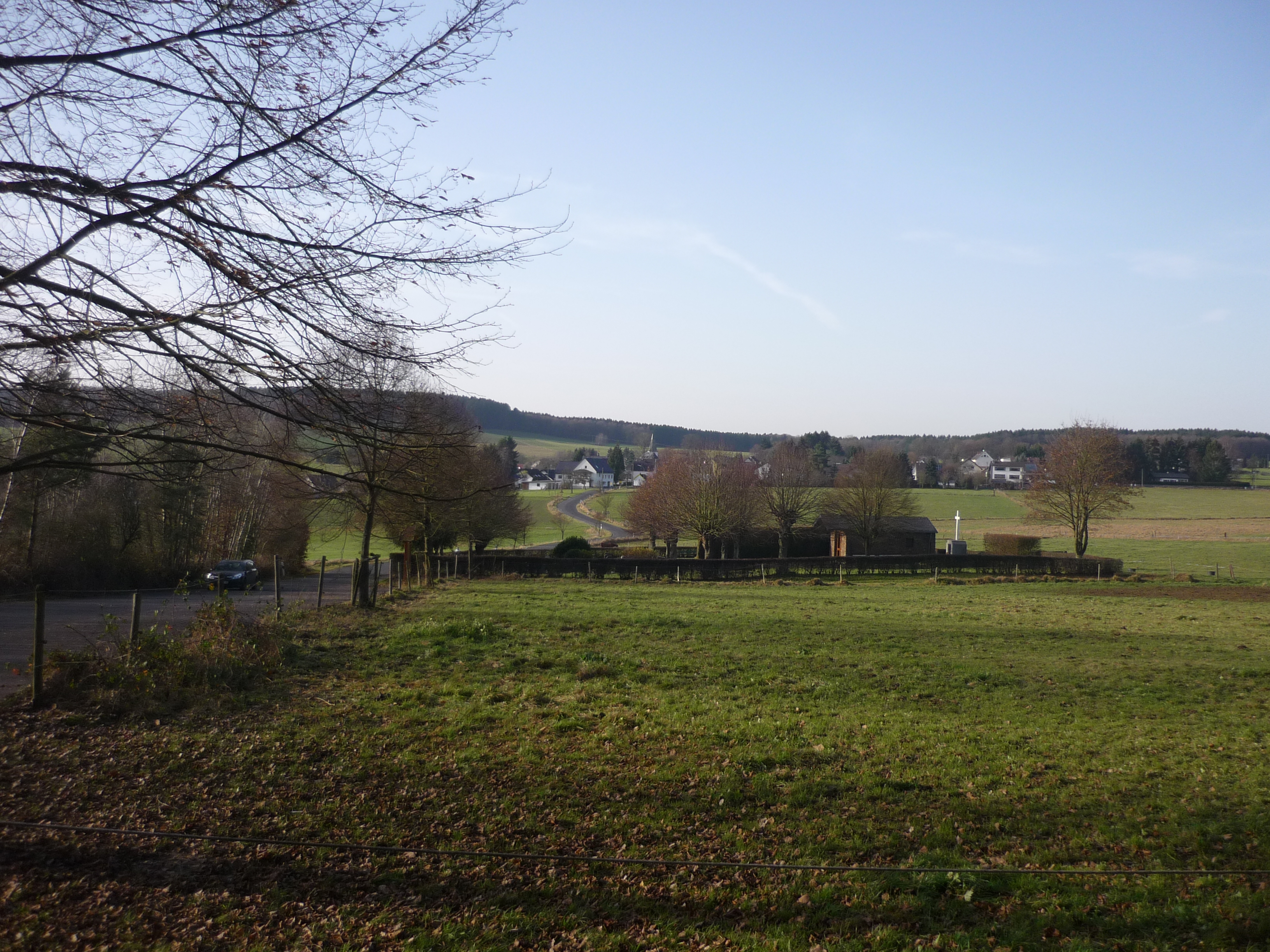 Hilgenroth